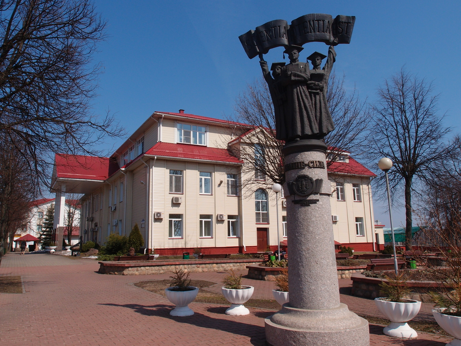 Minsk Institute of Management yard